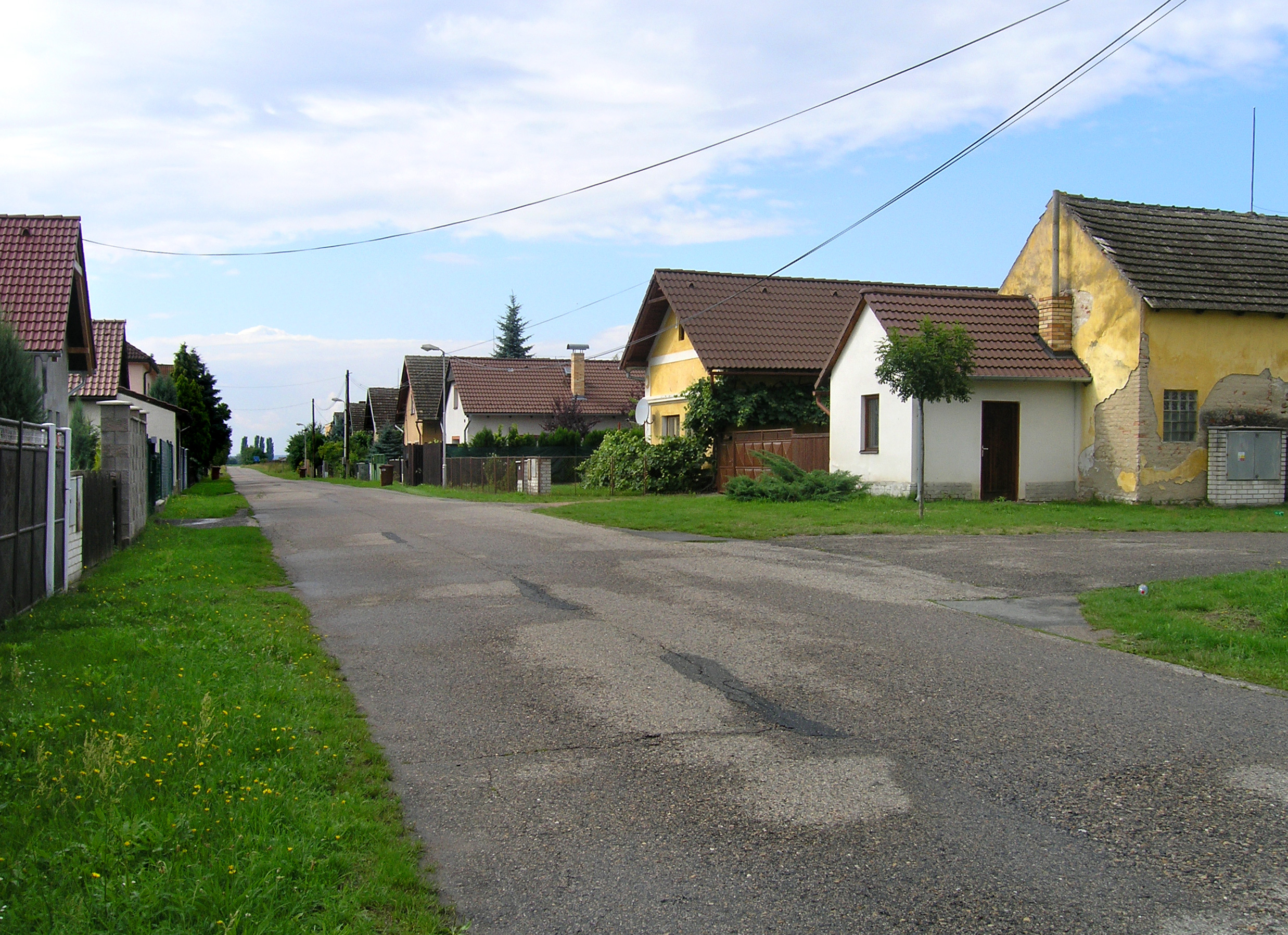 North part of Horka I village, Czech Republic